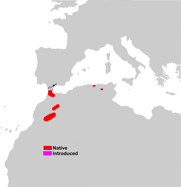 Macaca sylvanus range map.